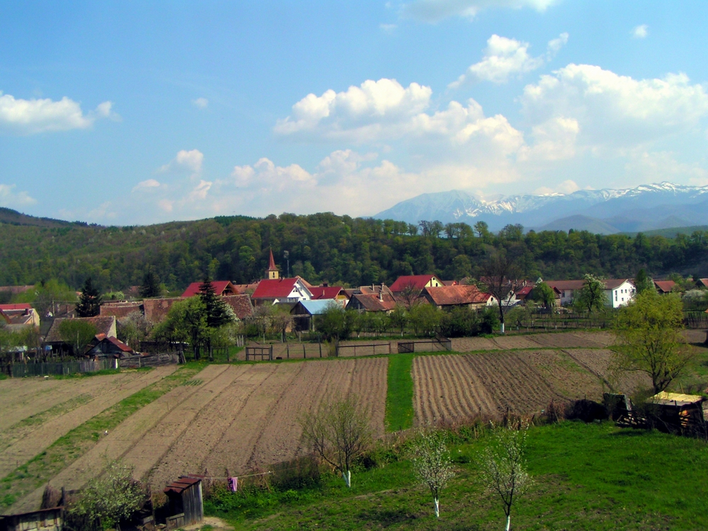 View of Talmaciu